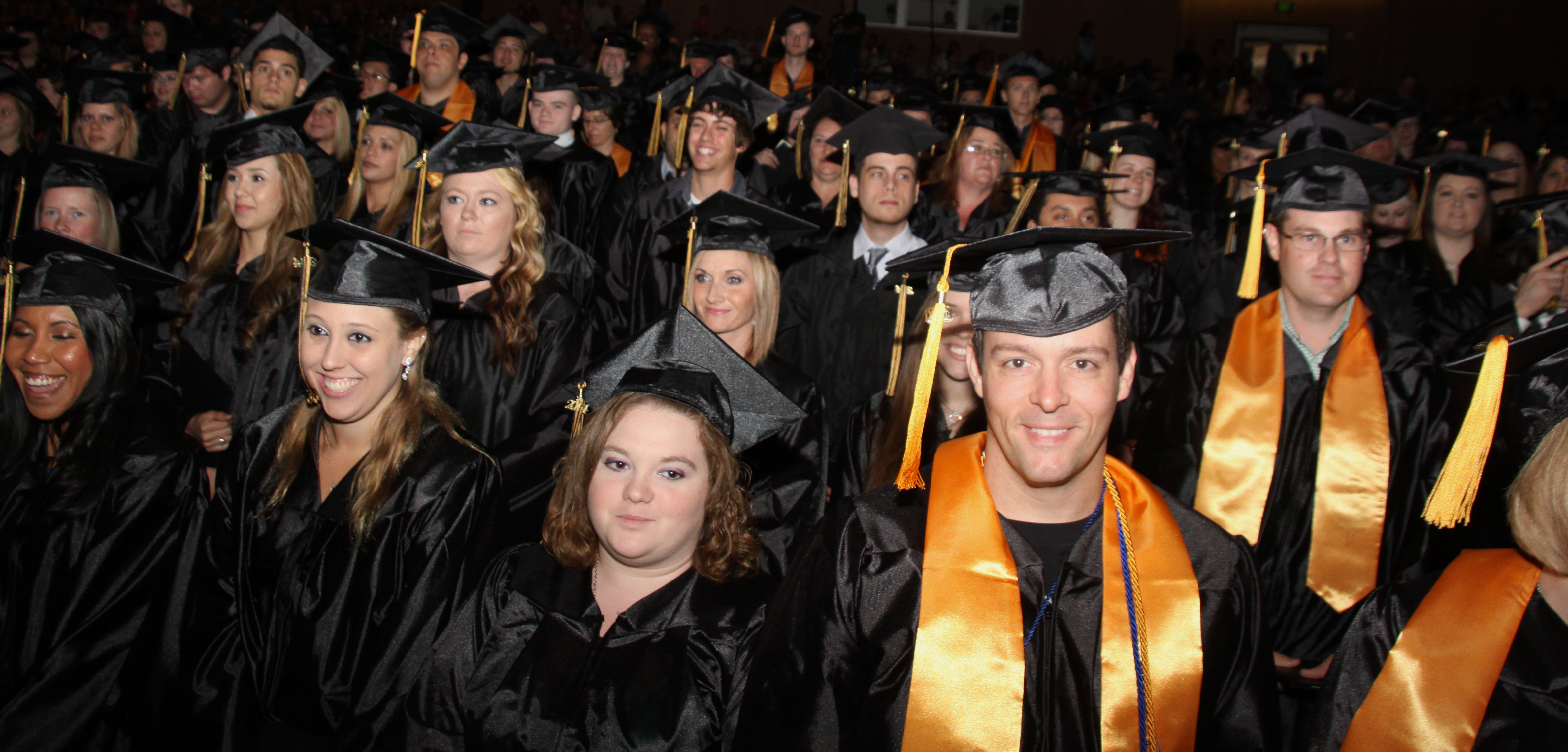 Graduation, May 2014